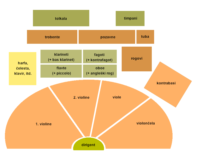 Orchestra setting in slovenian language, inserted in blank diagram from Commons